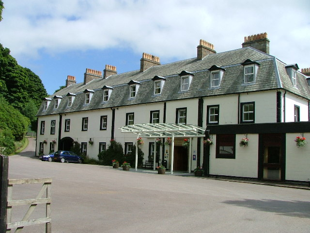 Shap Wells Hotel. A fine hotel deep in the countryside often used for conferences and wedding receptions but also willing to welcome the individual.